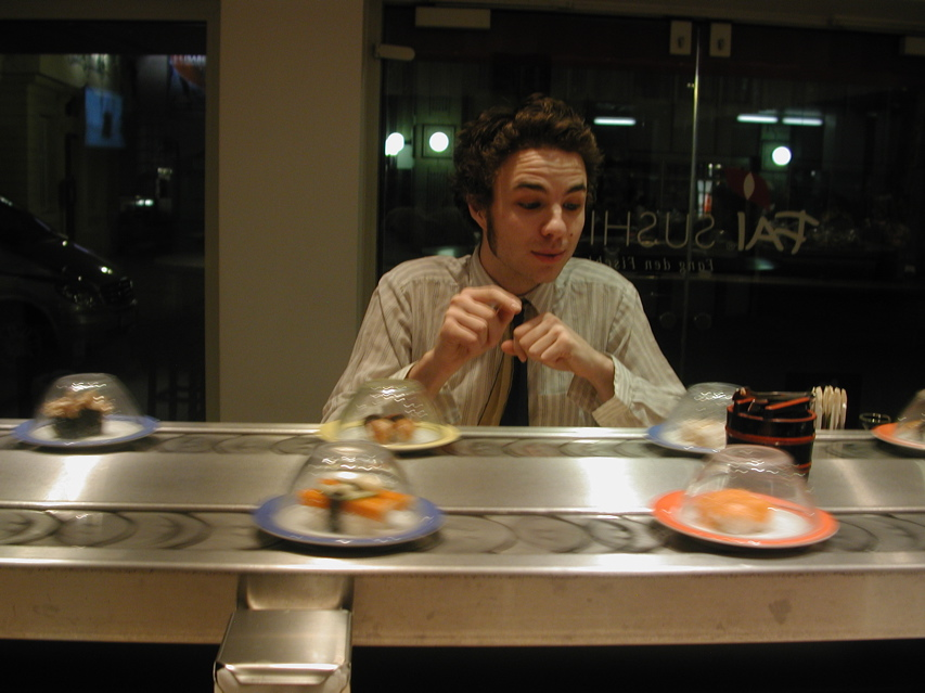 Conveyor belt sushi bar in Stuttgart, Germany. Photo taken by Kim Kyland in Winter, 2005.